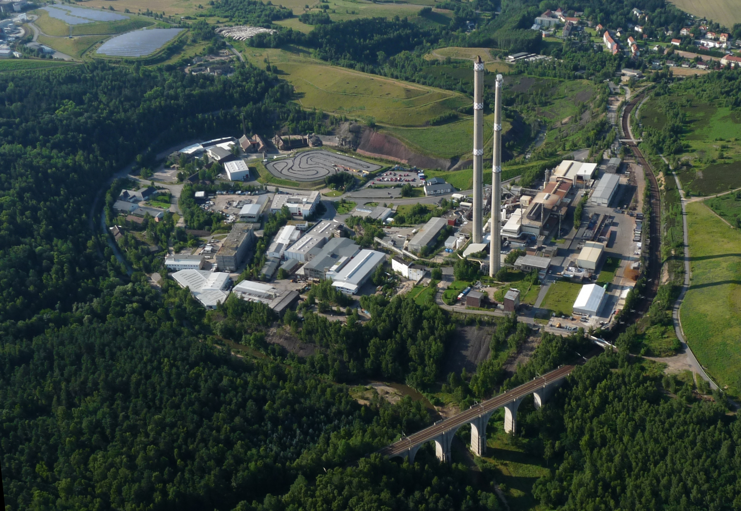 Muldenhütten near Freiberg in Saxony